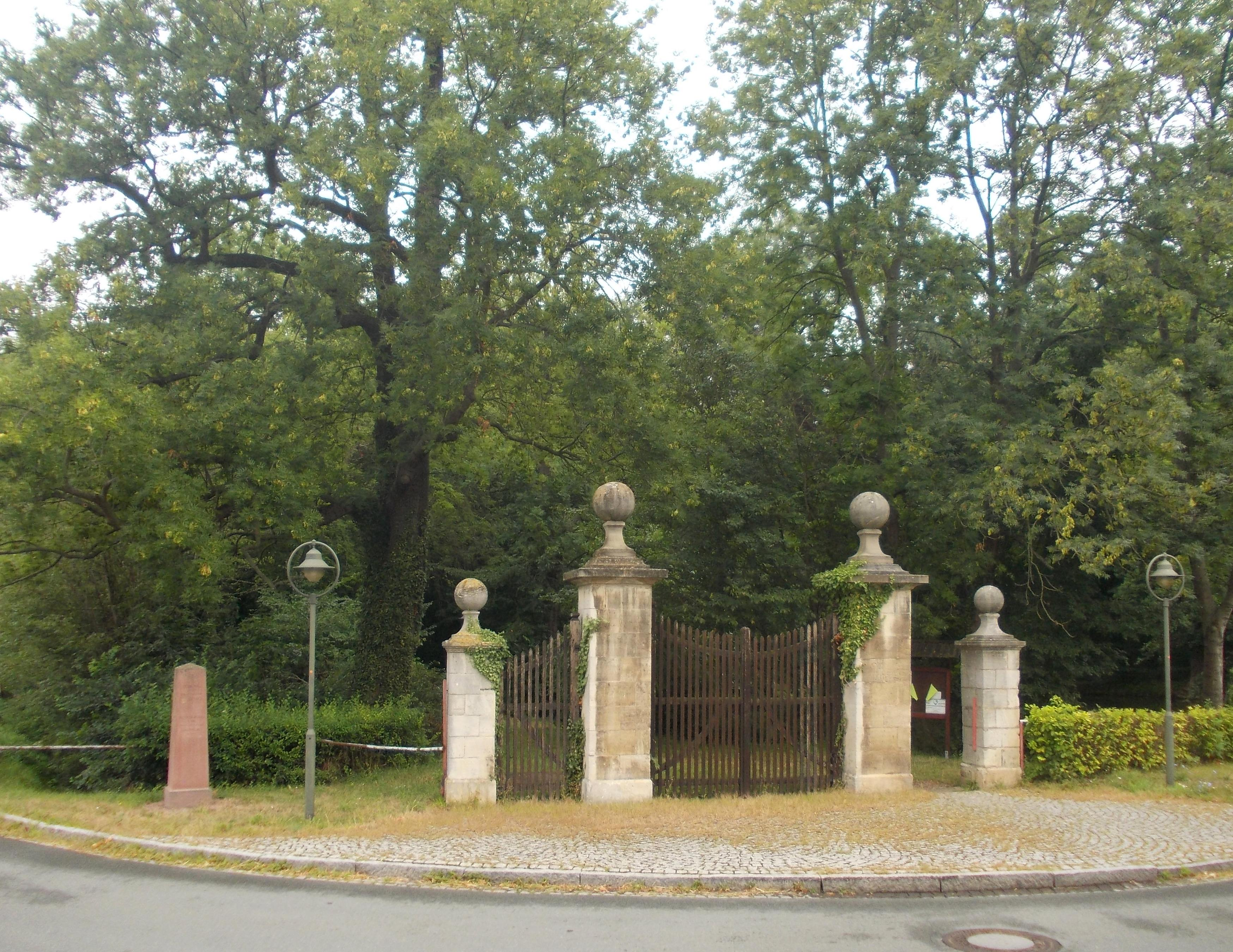 The park of Grossjena Manor (Naumburg (district: Burgnelandkreis, Saxony-Anhalt)